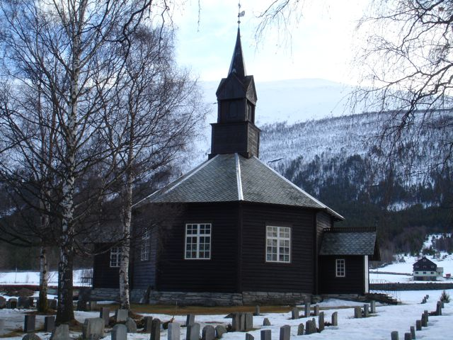 Bilete av Nordberg kirke